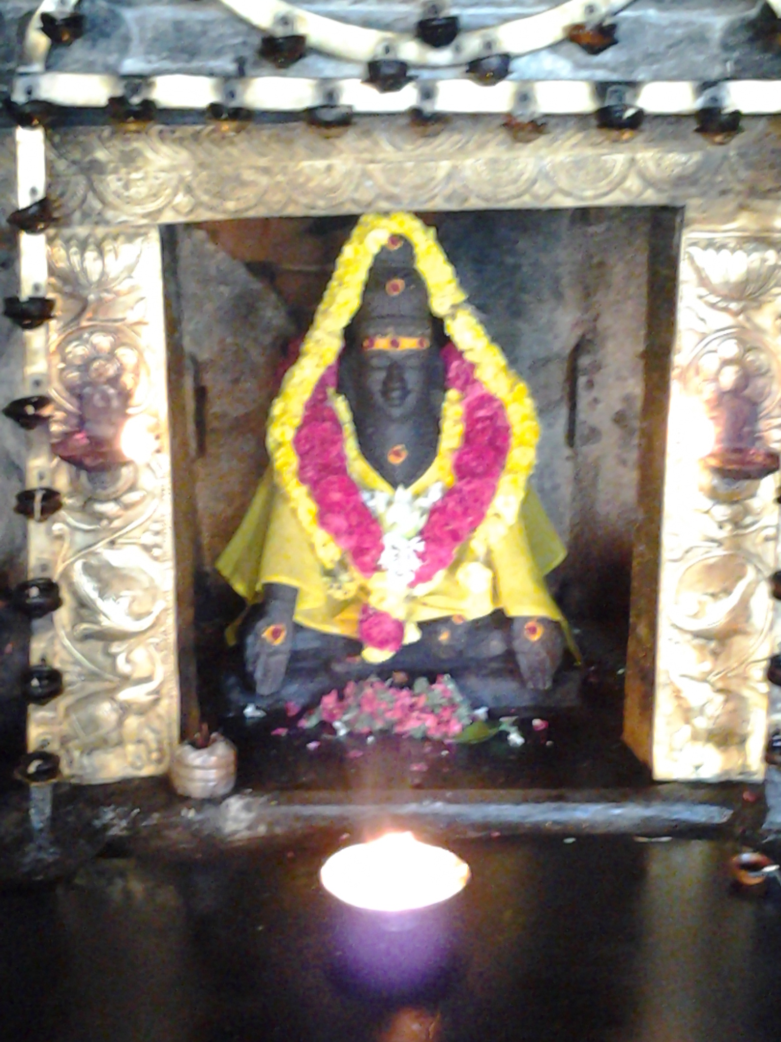 The statue of Mahan Sri Karuvurar Siddhar inside the temple.